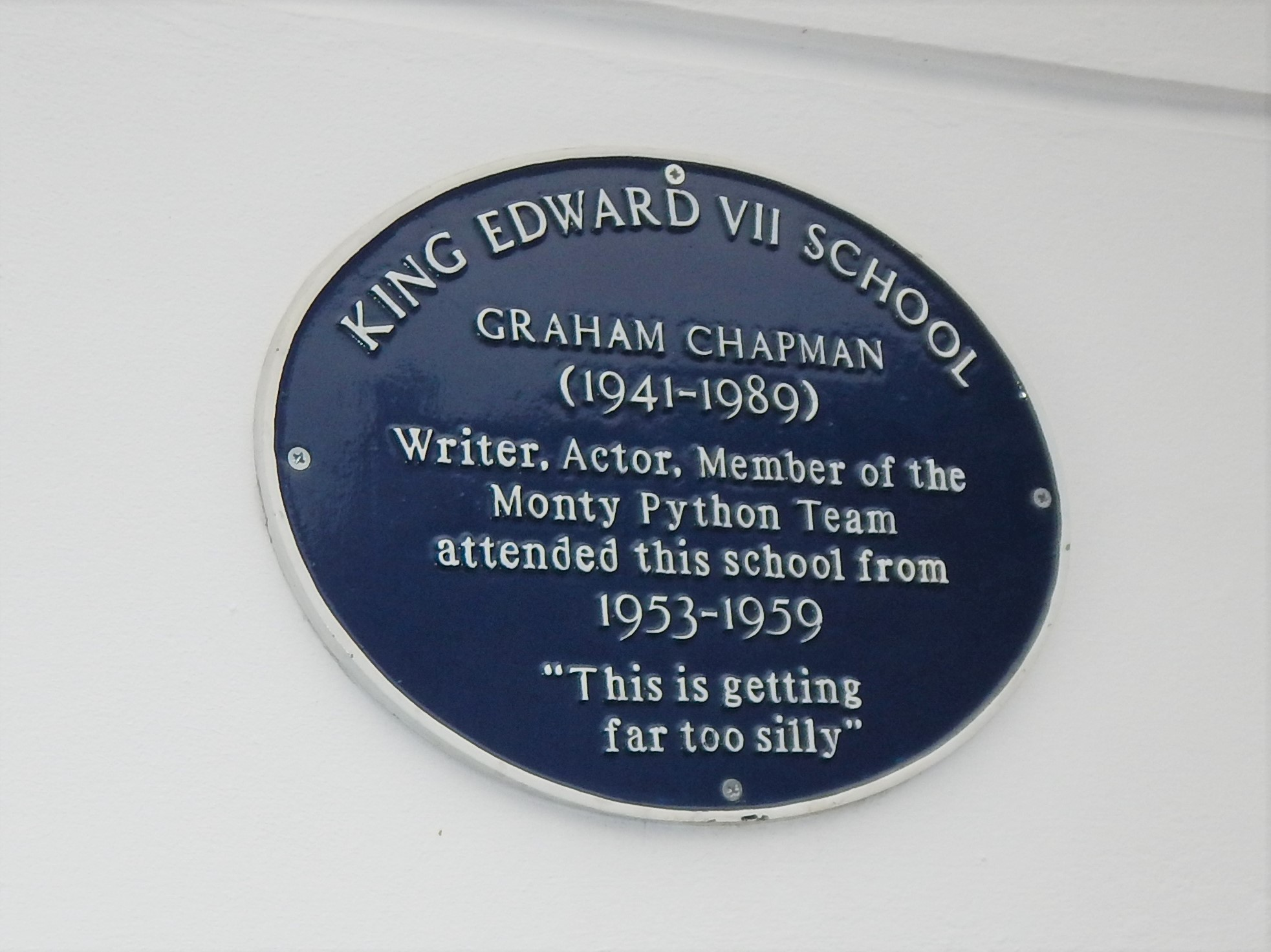 Blue plaque dedicated to Graham Chapman in Melton Mowbray. This image represents an Open Plaques entry #7546.